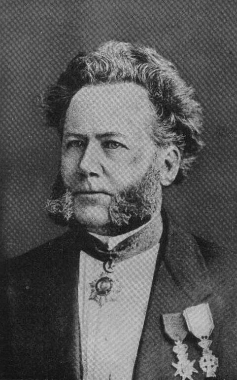 The Norwegian author Henrik Ibsen (round 1870 in Dresden)